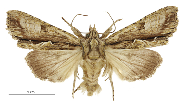 Male specimen of Meterana decorata photographed by Birgit E. Rhode, Landcare Research New Zealand Ltd.